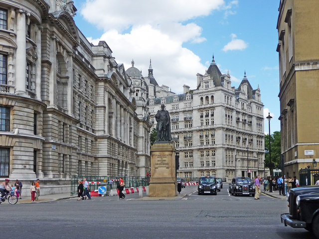 Statue of Spencer Compton Eighth Duke of Devonshire Looking across Whitehall after crossing from Horseguards Parade we have this statue of Spencer Compton the Eighth Duke of Devonshire (1833-1908)